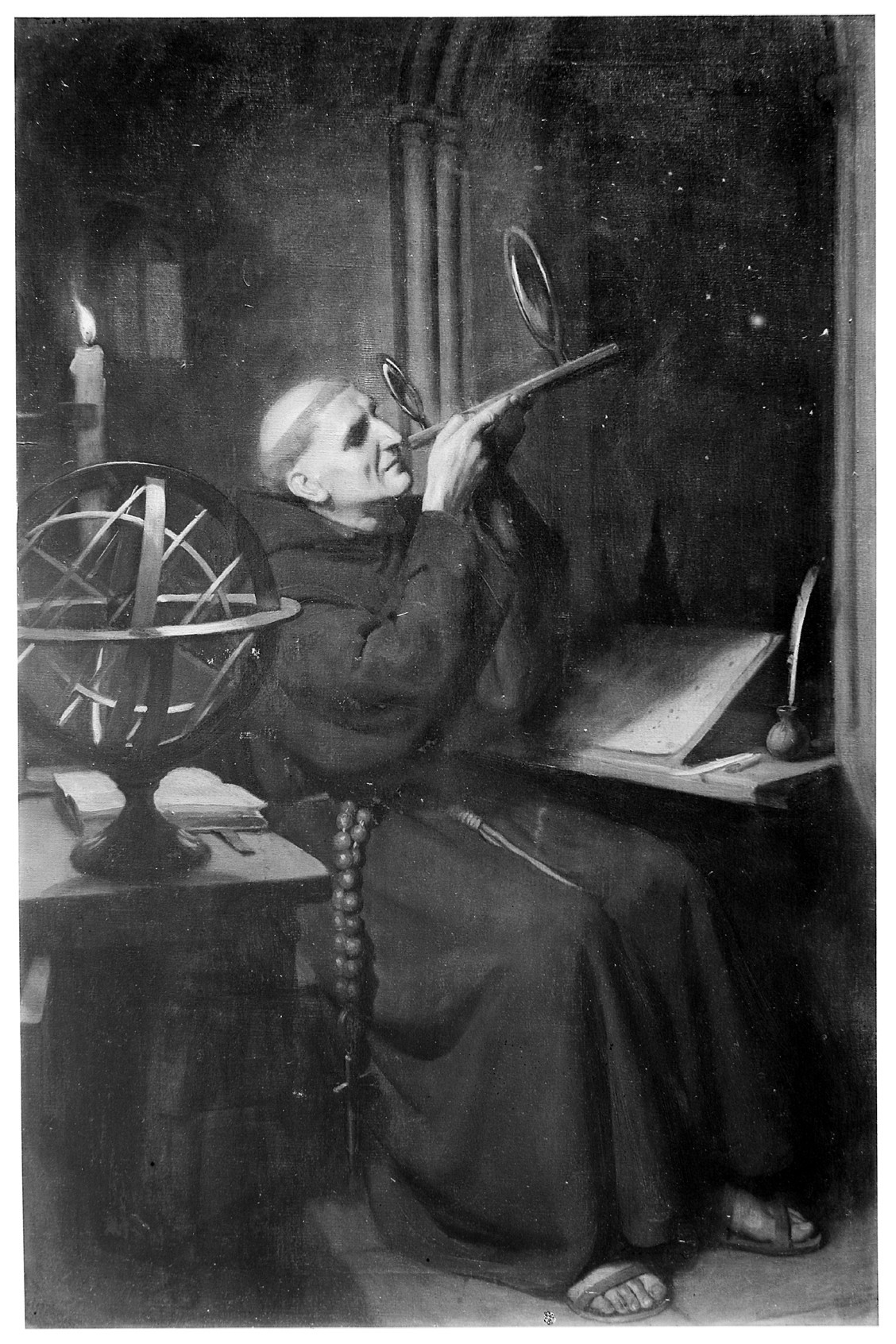 Roger Bacon in his observatory at Merton College, Oxford. Oil painting by Ernest Board. Iconographic Collections Keywords: Ernest Board